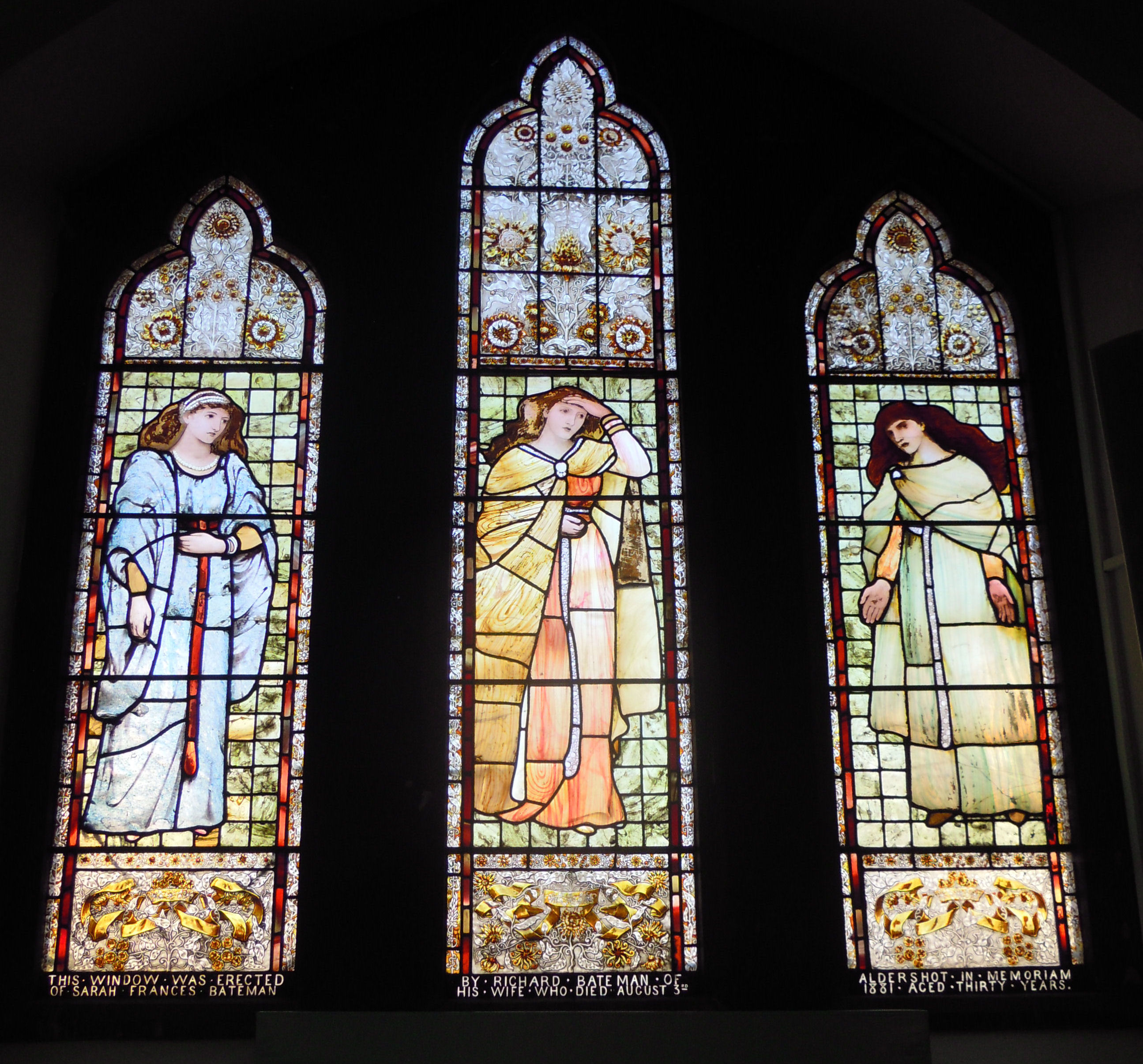 North window attributed to Arthur Hardwick Marsh in Holy Trinity church in Aldershot in Hampshire